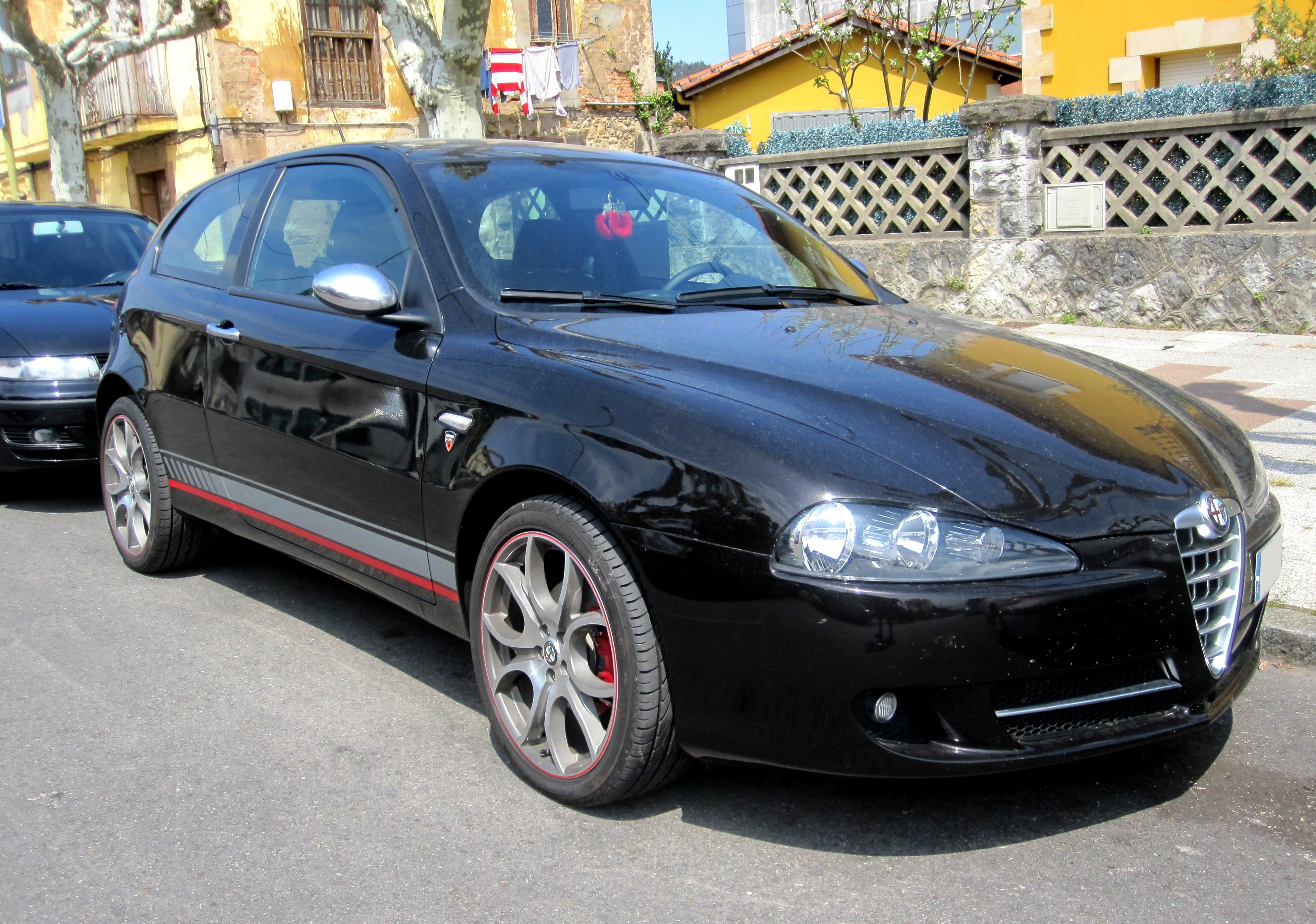 Special edition of the 147. I had never seen one before in person, I do like it.